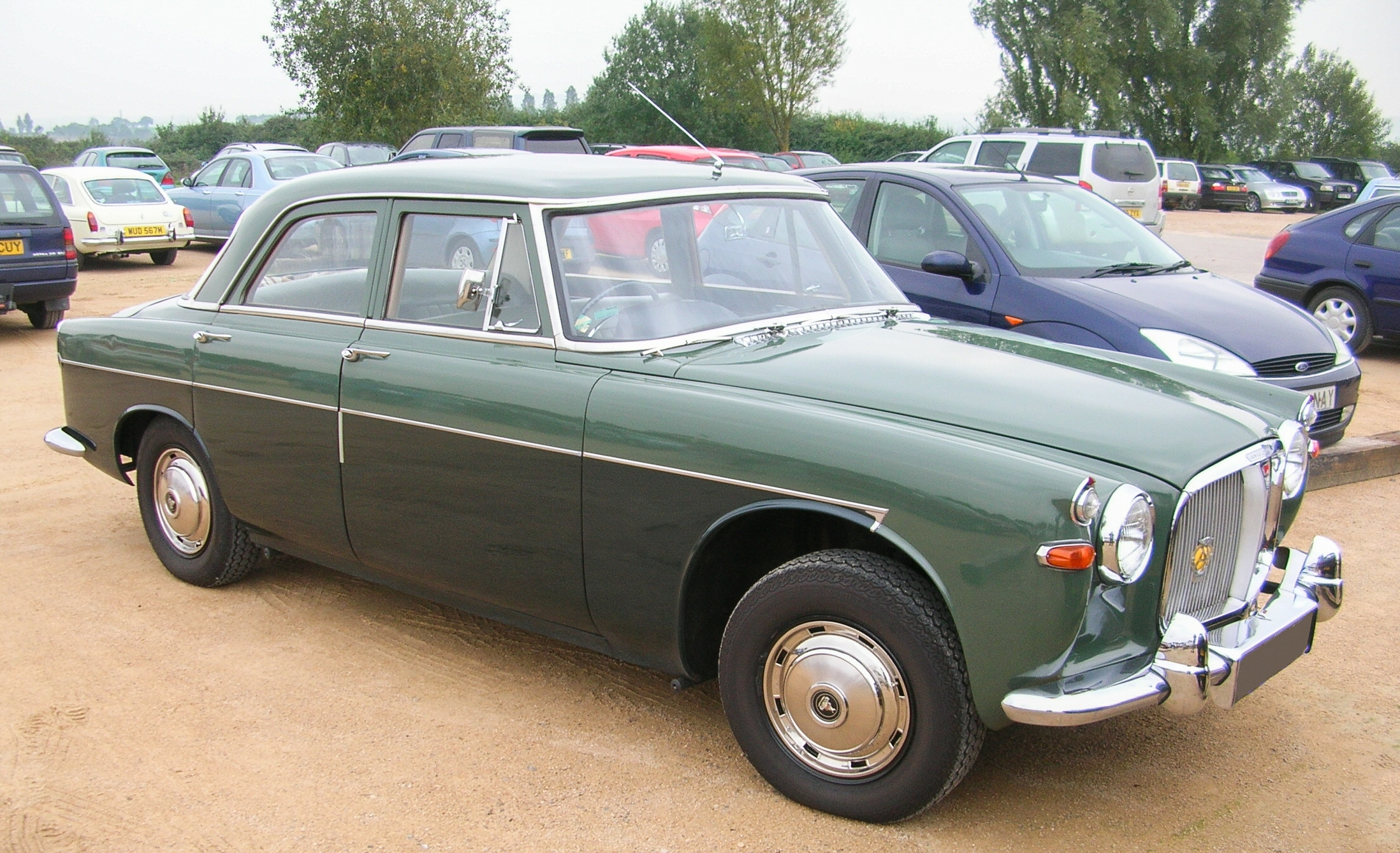 A 1962 Rover P5 MkII 3-Litre